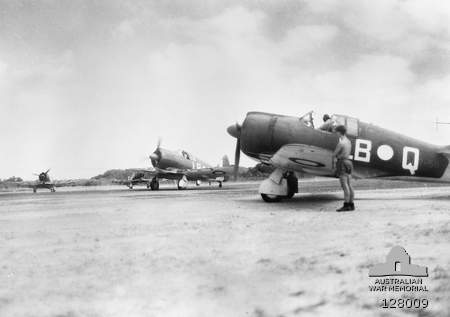 AWM caption : C.A.C. Boomerang aircraft of No.84 Squadron, R.A.A.F.